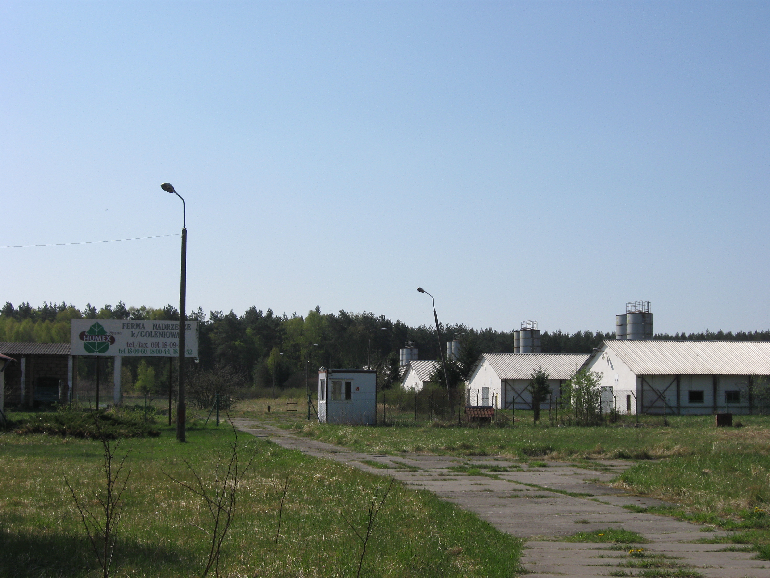 Photo village: Nadrzecze